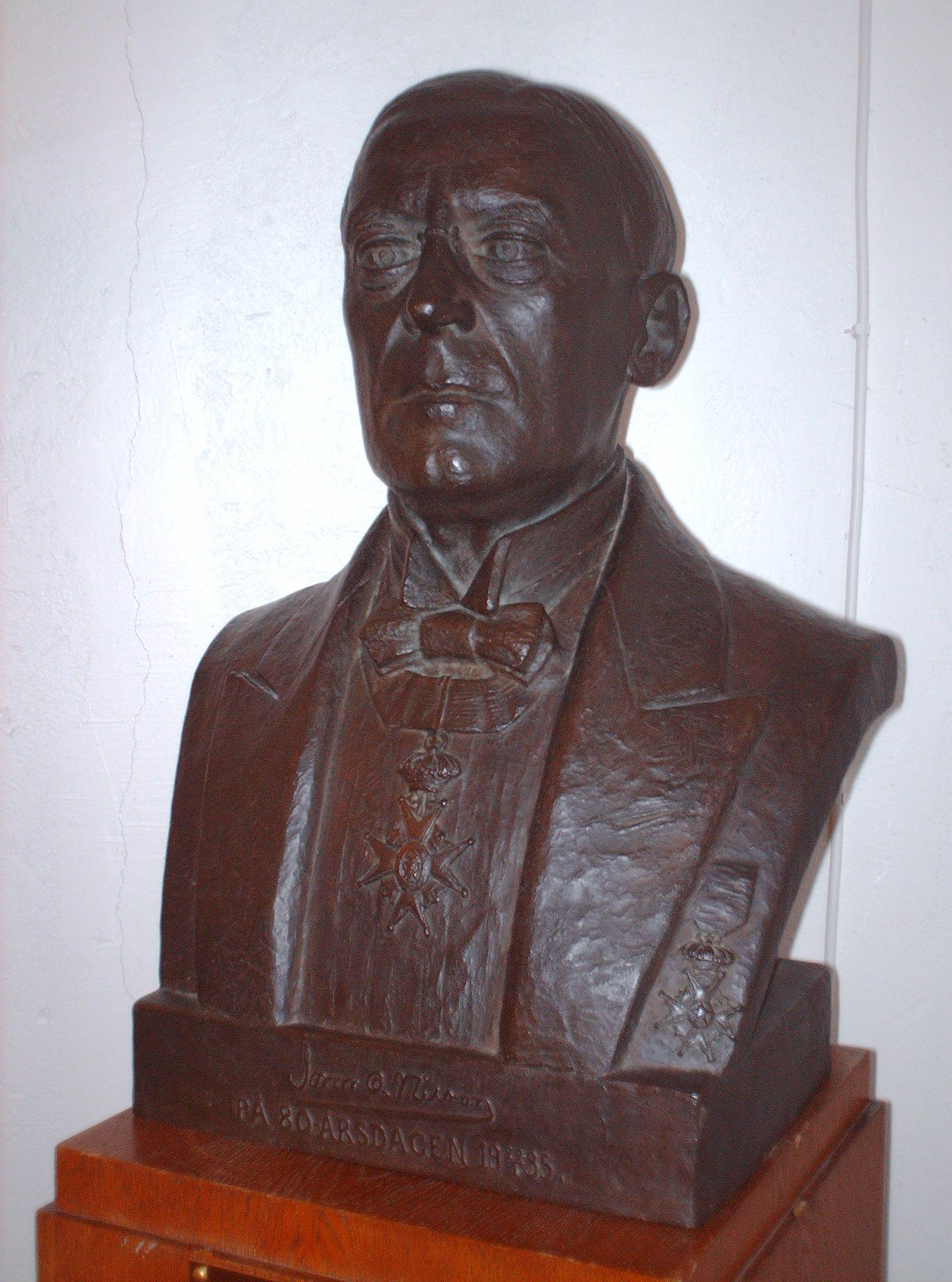 Statue of John O. Nilsson